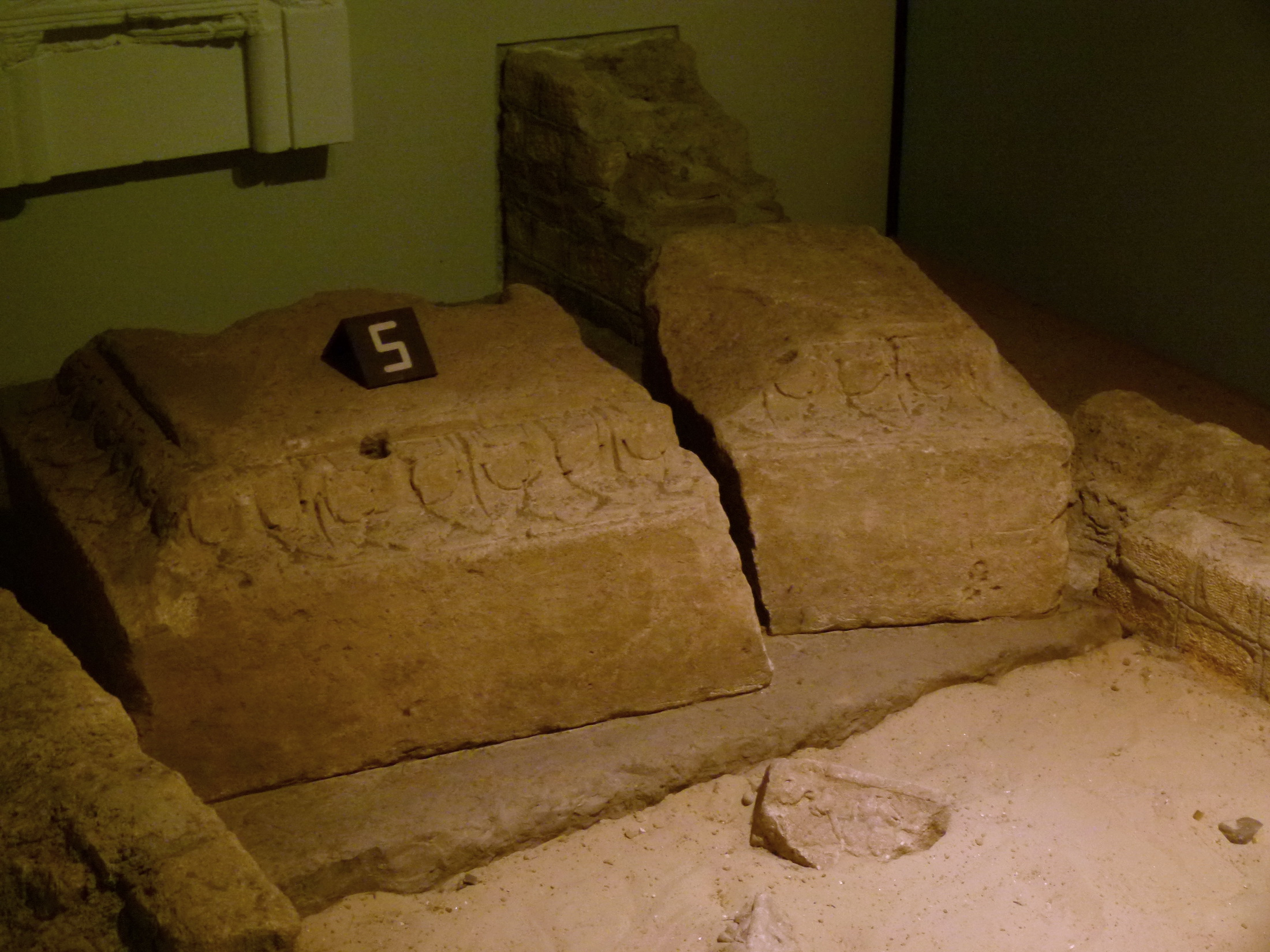 View of Museumkelder Derlon (Hotel Derlon Museum Basement) in Maastricht, the Netherlands. The museum features the 1983 archaeological excavations of an ancient Roman shrine from the 2nd century AD. The shrine stood along the main road from Tongres via Maastricht to Cologne, close to the bridge over the river Meuse. It consisted of an enclosed courtyard with a Jupiter column and a number of smaller monuments. The broken base of the Jupiter column is seen here.